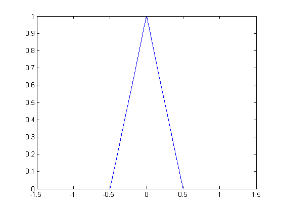 An alternate definition of the triangle function. MATLAB code: x=-1.5:0.1:1.5 y=zeros(1, 31); y(11:21)= 1- abs(x(11:21)).*2; plot(x, y)